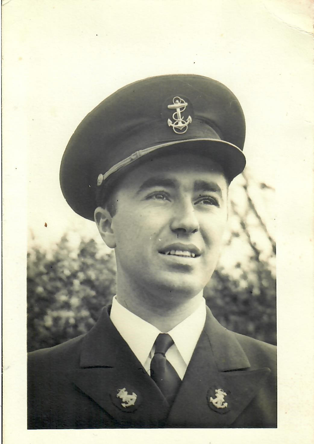 Chaplain Cadet Hadden is in the uniform of a student in the US Navy V12 program.